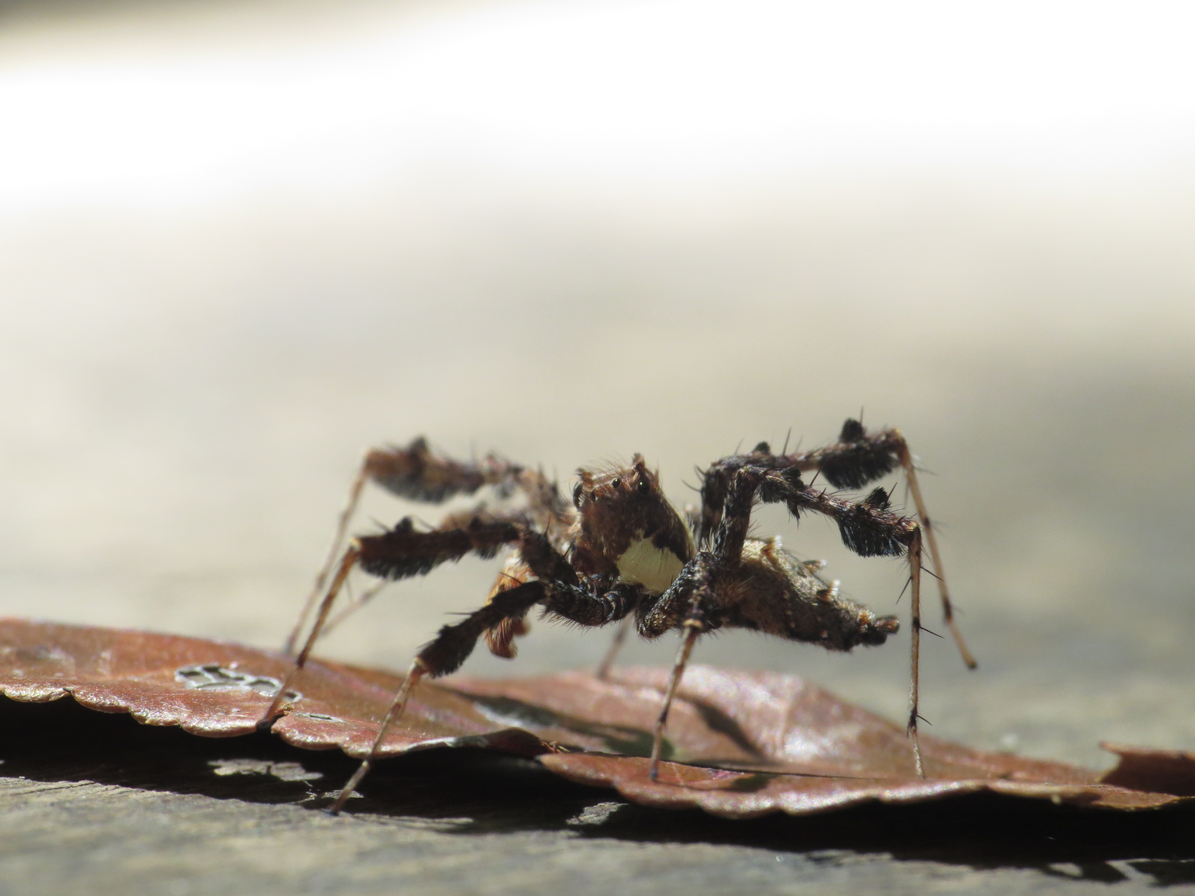 Portia fimbriata (Doleschall, 1859), Cairns Botanic Garden, Cairns, QLD, 21 November 2014